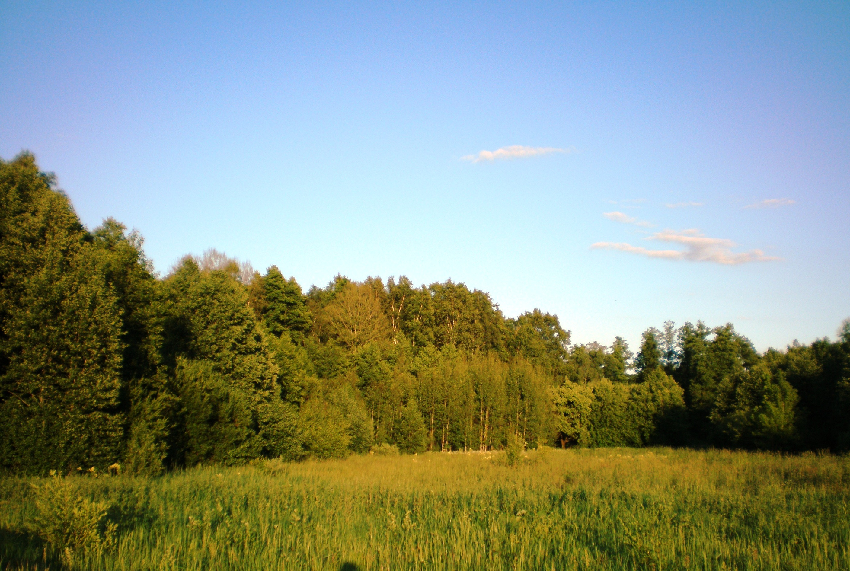 Žalioji giria forest